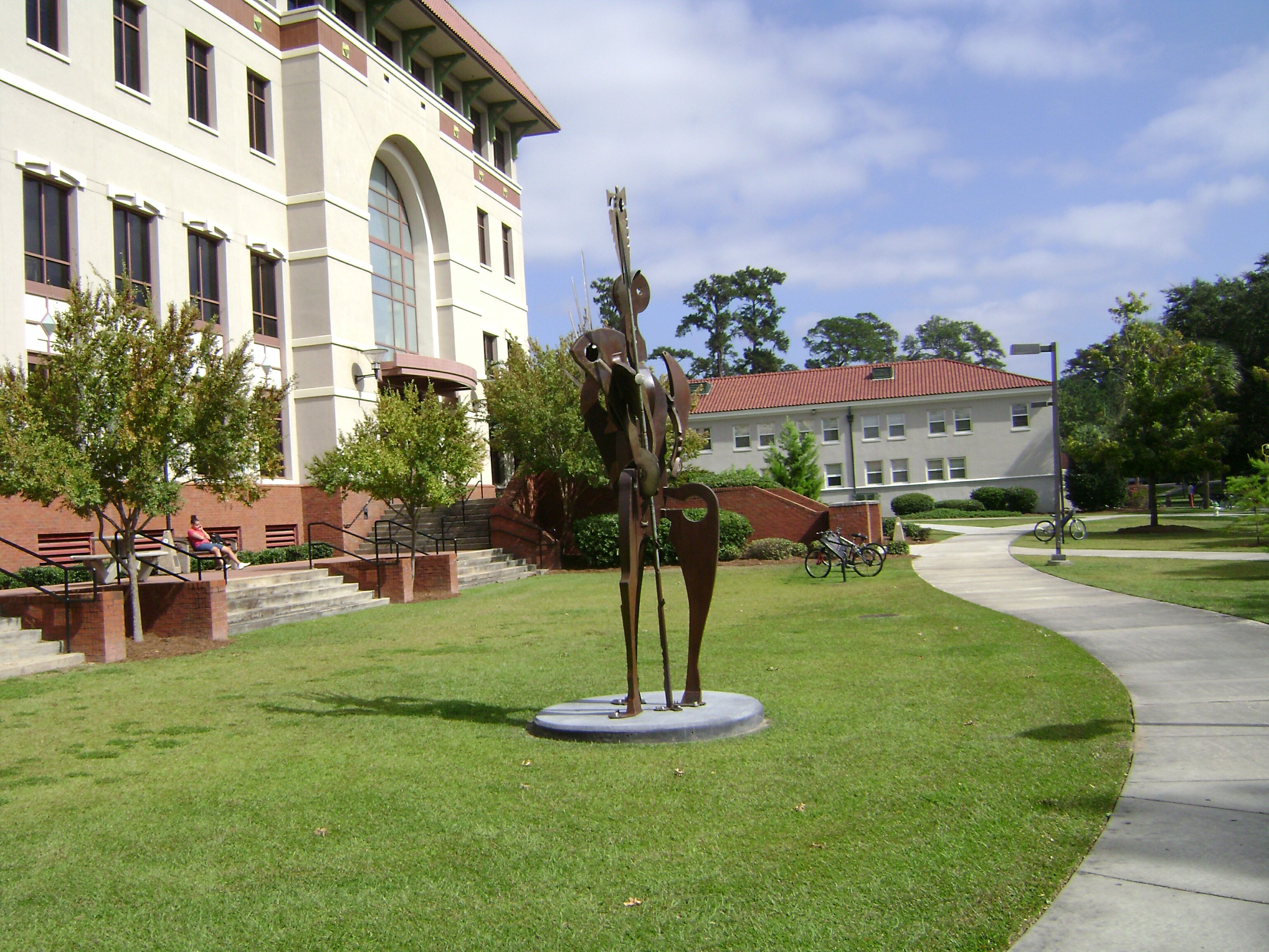 Sculpture behind Odum Library, Valdosta State University, Valdosta, Lowndes County, Georga